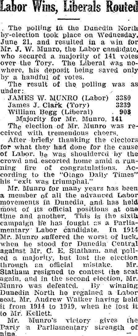 Newspaper excerpt from the Maoriland Worker about the outcome of the 1922 Dunedin North by-election.